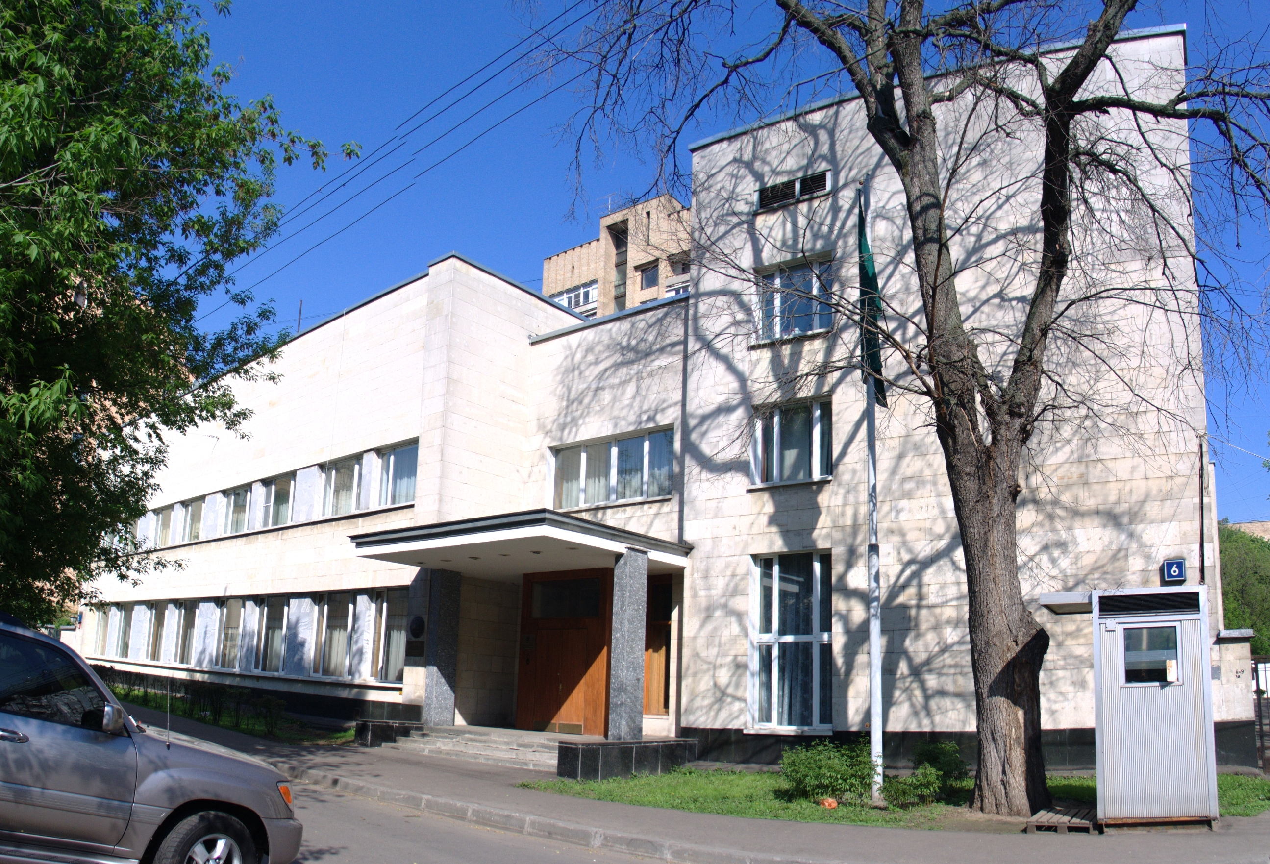 Building of the Embassy of Bangladesh in Moscow (Zemledelcheskiy side-street 6).